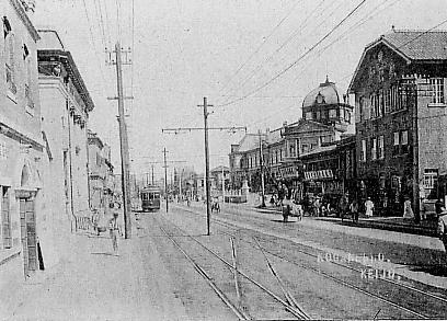 Kogane-Cho in Keijo(present-day "Euljiro")